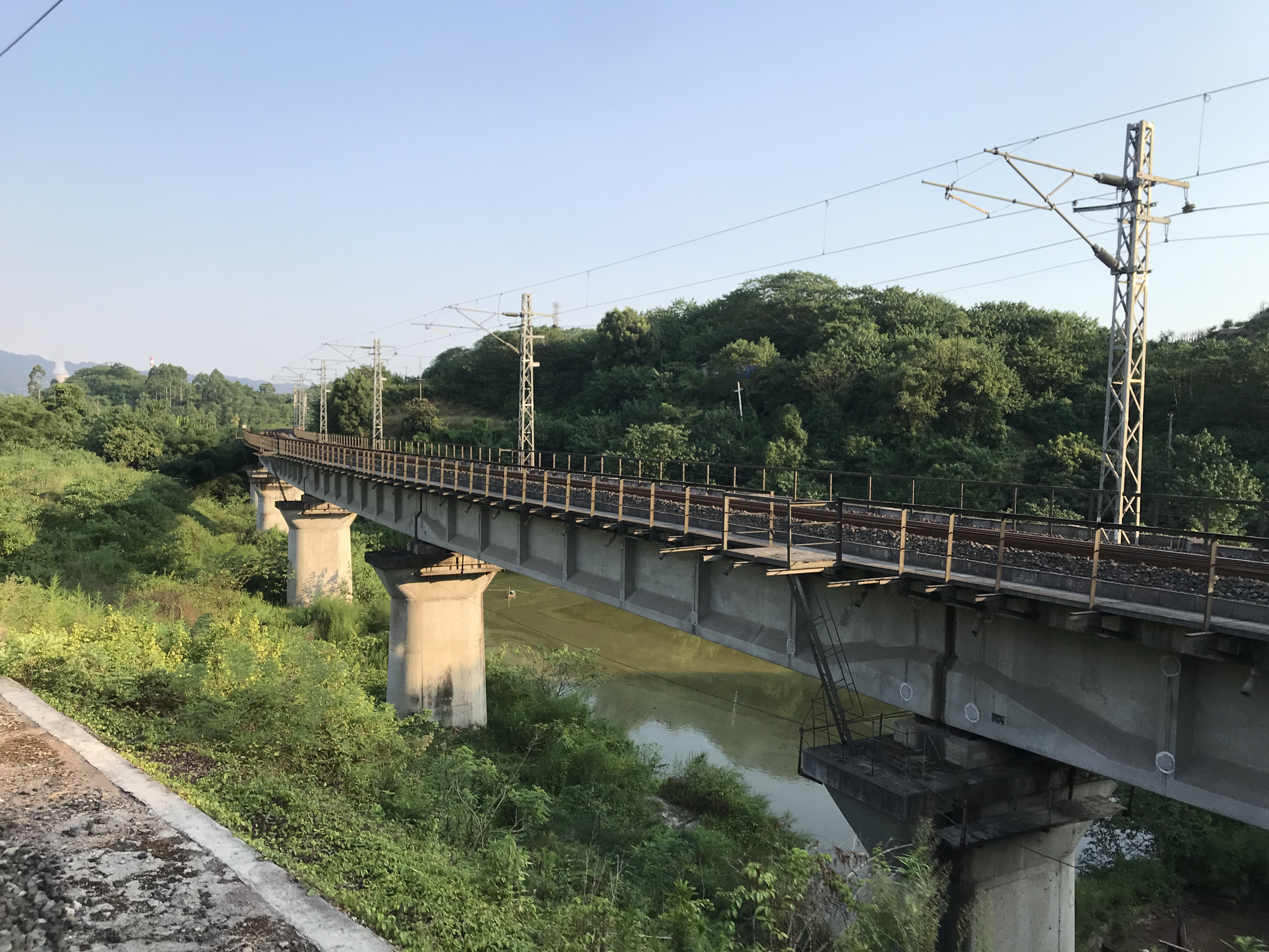 201908 Connection Line to Chengdu-Chongqing Railway on Xinglongchang-Luohuang Railway